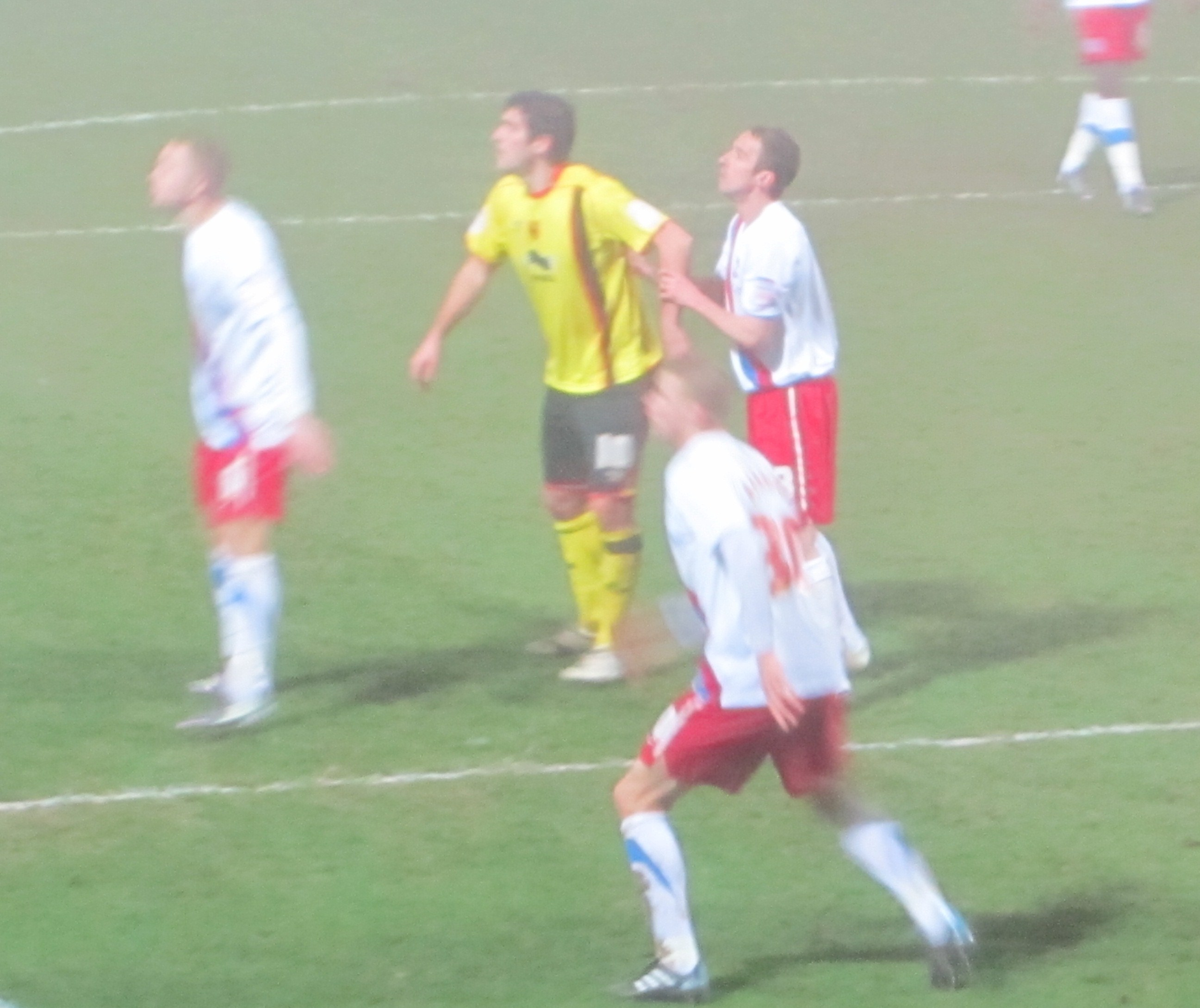 Danny Graham (yellow shirt) playing for Watford against Crystal palace